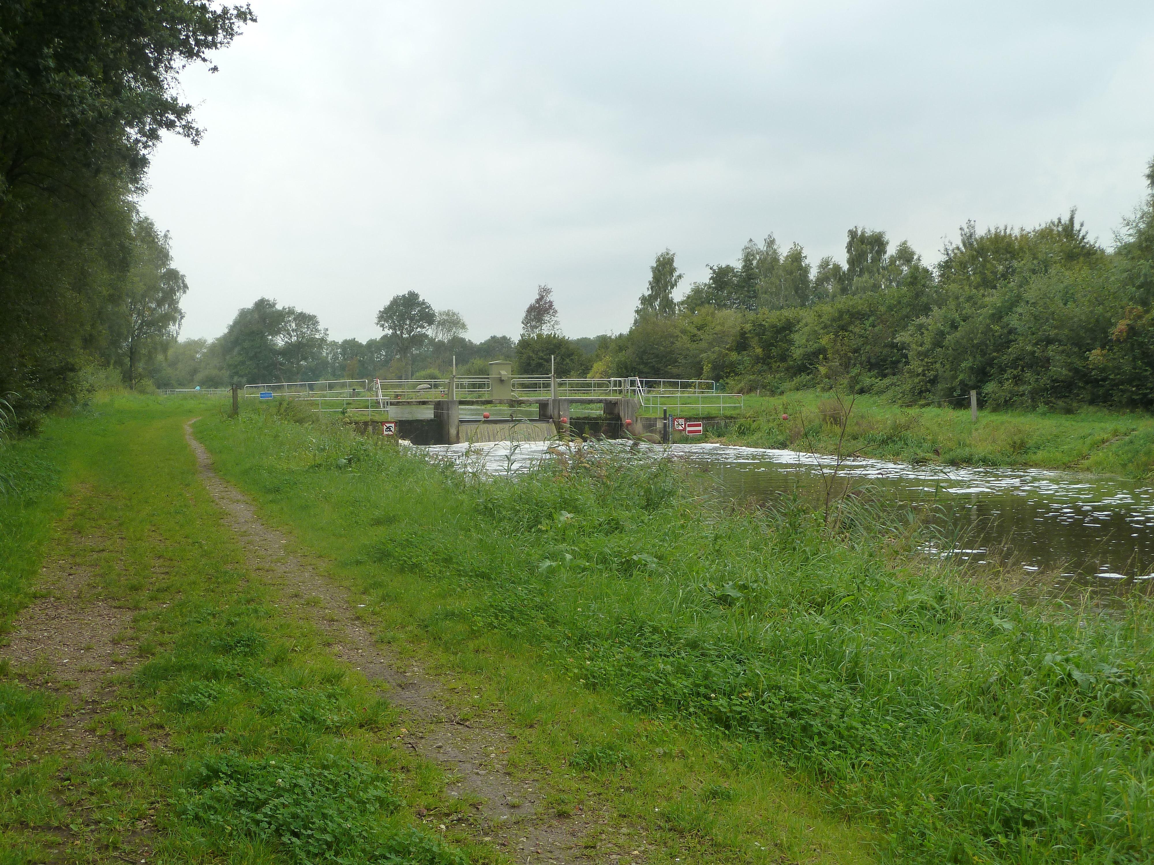 The river Essche Stroom near castle Nemerlaer, Noord-Brabant, Netherlands